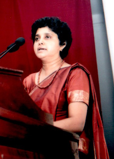 Photograph of 43rd and first female Chief Justice of Sri Lanka,Hon. Dr. Shirani A Bandaranayake